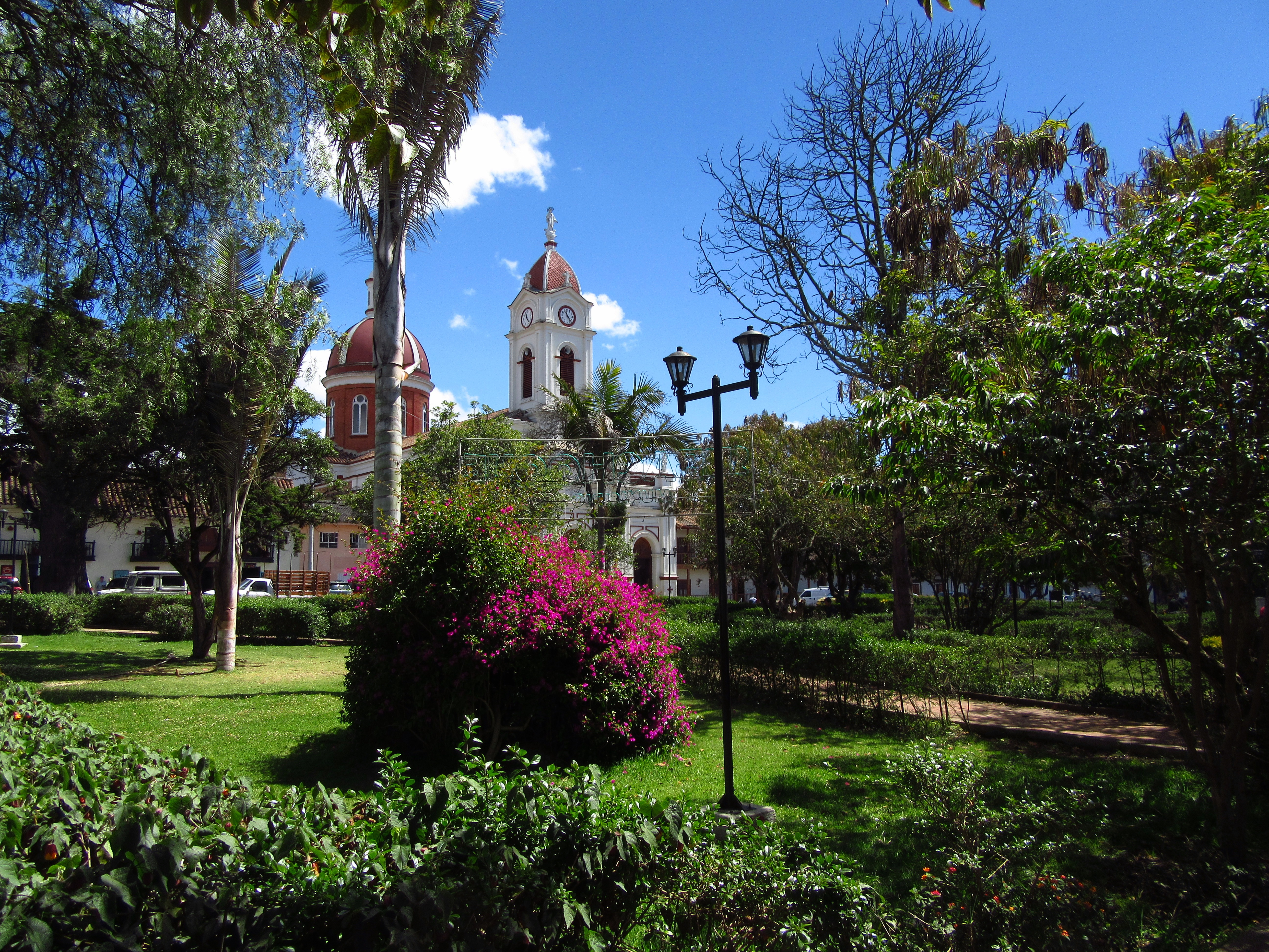 Subachoque